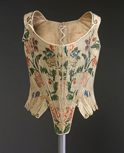 Woman's corset (XVIII century). Museu Tèxtil i d'Indumentària de Barcelona. Picture: La fotogràfica